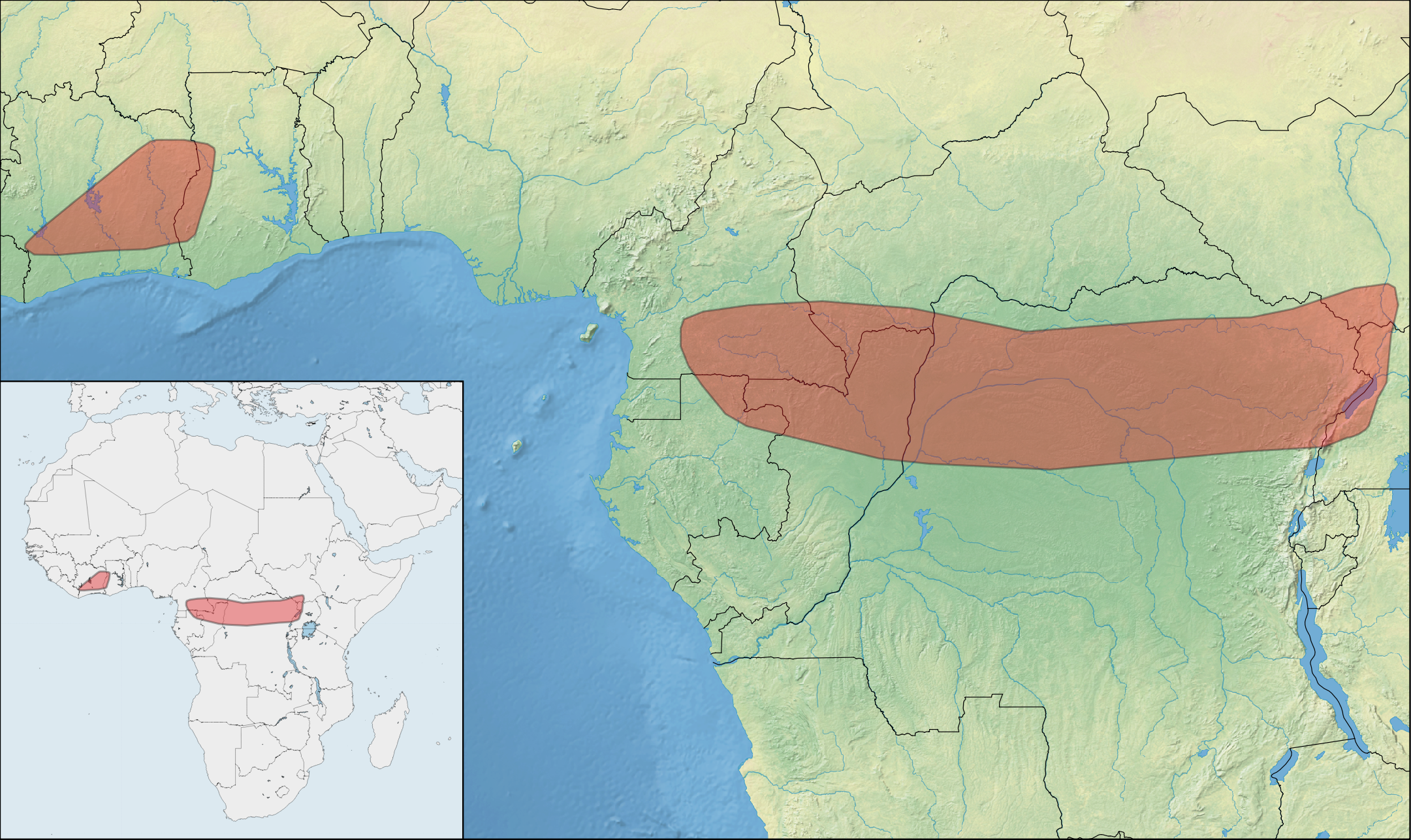 Geographic range of Chaerephon aloysiisabaudiae